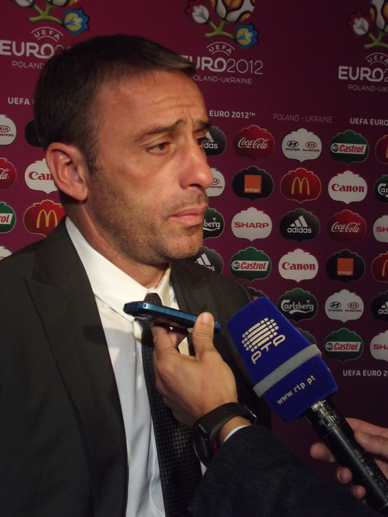 Paulo bento after UEFA EURO 2012 qualifying play-offs draw, that took place in Sheraton Hotel in Cracow.